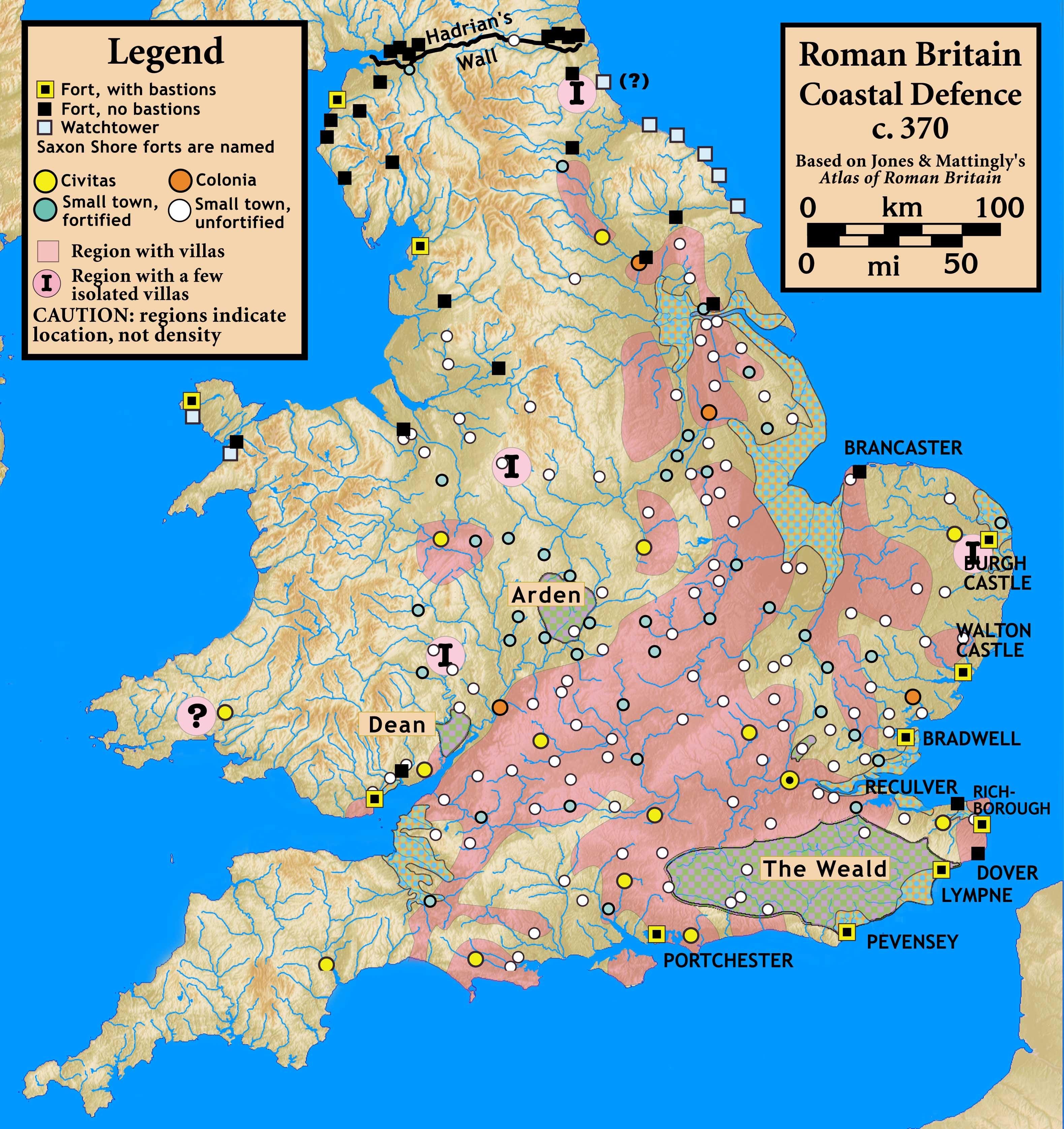 Roman Britain, c. 370, Coastal Defence